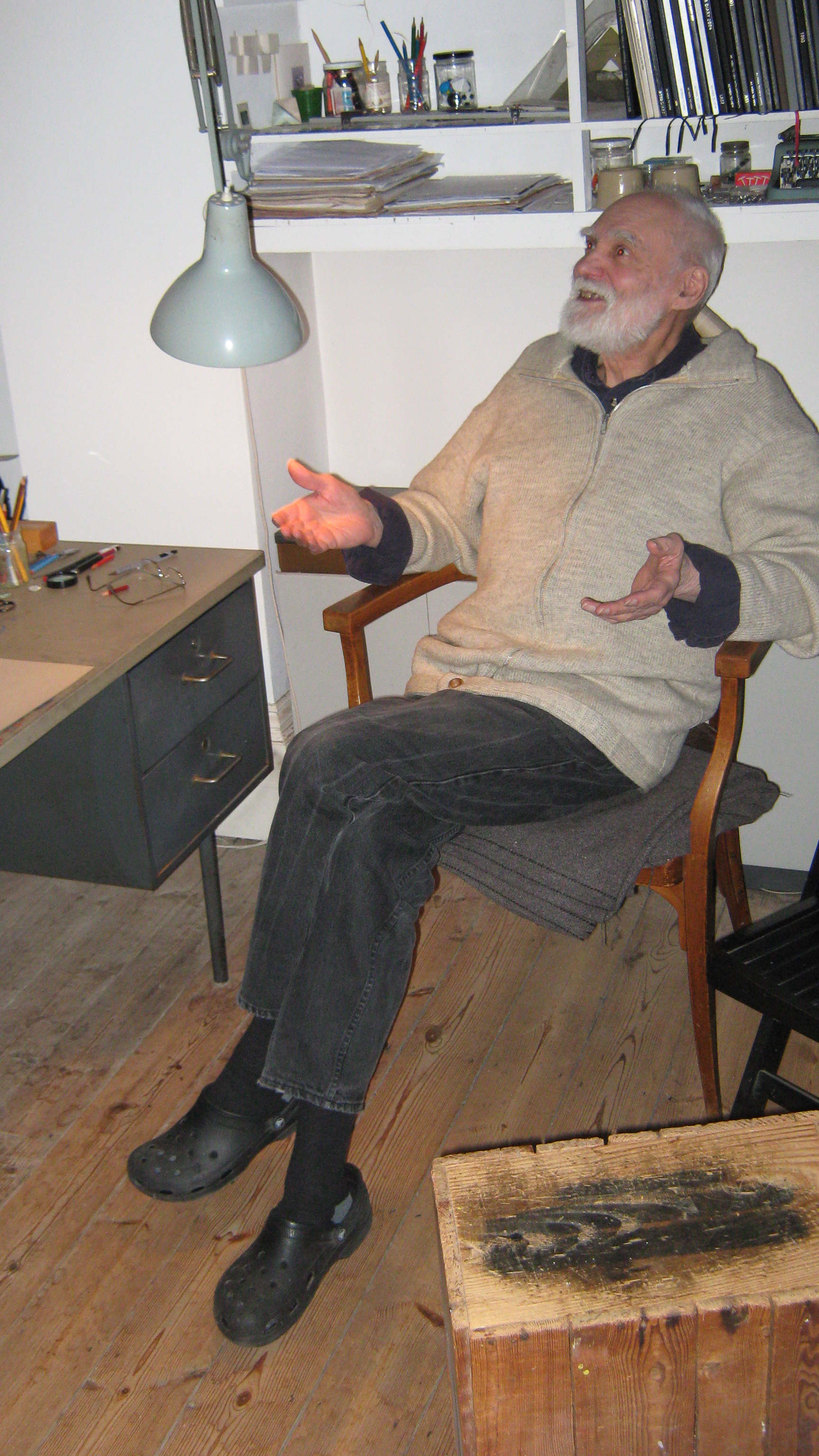 The British artist Jeffrey Steele (1931-) in his studio in Southsea, Hampshire, taken by his son, Simon Steele.